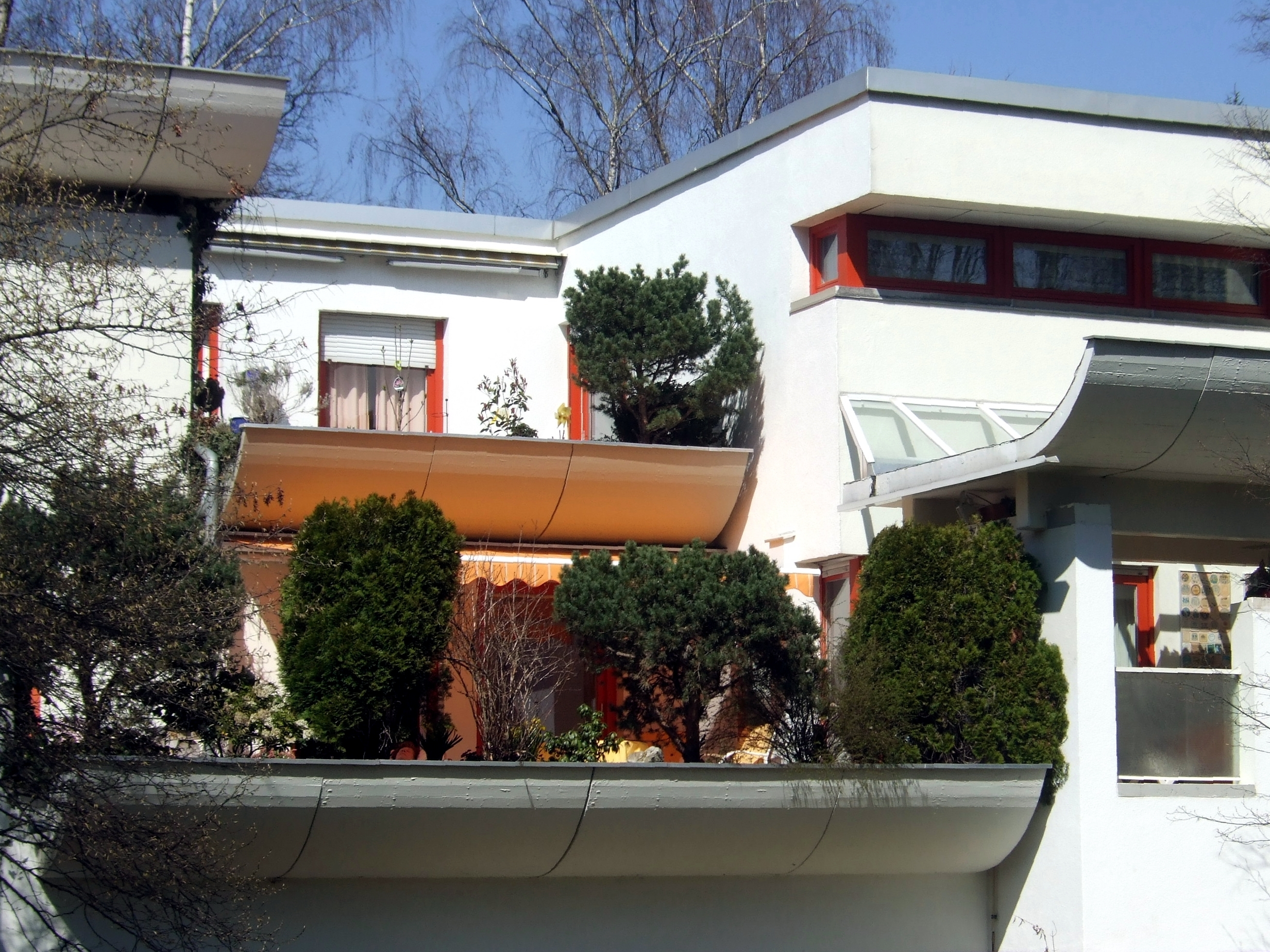 Ottobrunn (2–4 Ulmenstraße): Detail of the so-called „Terrassenwohnanlage“ (i.e. housing scheme of terrace apartments) (also called „Eichbauer-Siedlung“), erected in 1968–69. In 1971, it provided its Munich construction company, the „Bauunternehmung Fitz Eichbauer“, an award by the Bavarian section of the Bund Deutscher Architekten (Association of German Architects) (BDA).